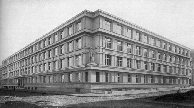 The building of former Military Geographic Institute in Prague. The building was designed by Czech architect, painter and stage designer Bedřich Feuerstein during the years 1921 to 1923. The implementation of the construction took place from 1923 to 1925. Today (2016) Address: Praha 6, Bubeneč, Rooseveltova no. 620/23. The corner-view at the building of the Military Geographic Institute shortly after its completion in 1925.